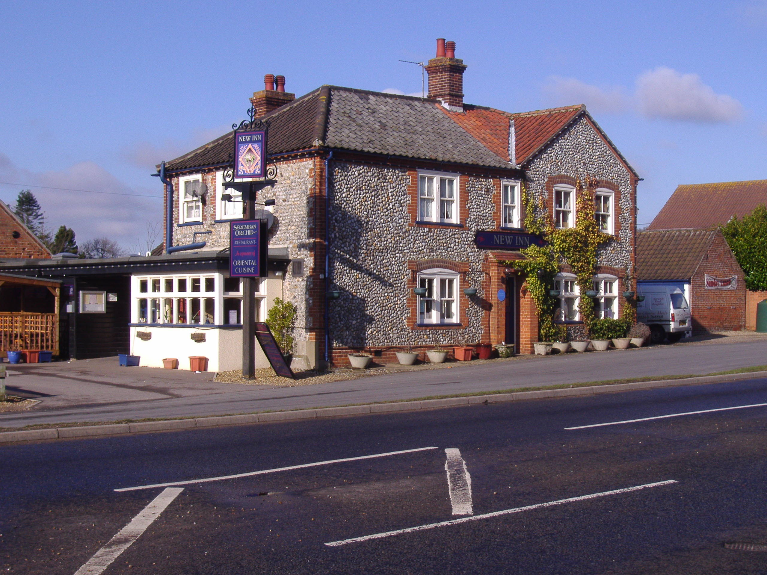 The New Inn Public House is located on Norwich Road Roughton, Norfolk.